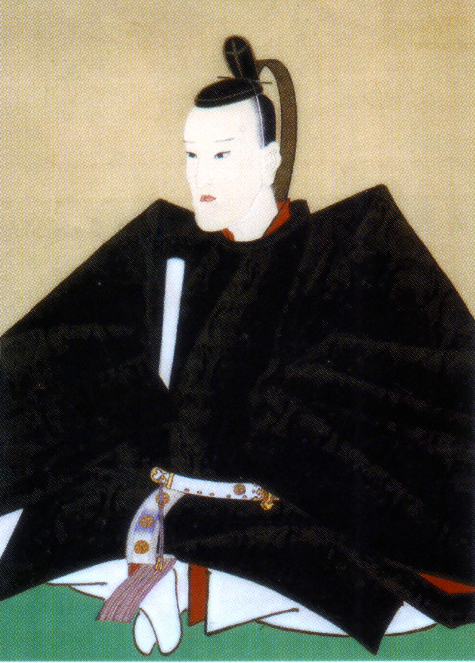 portrait of Ikeda Naritoshi(the 8th feudal lord of Tottori clan)